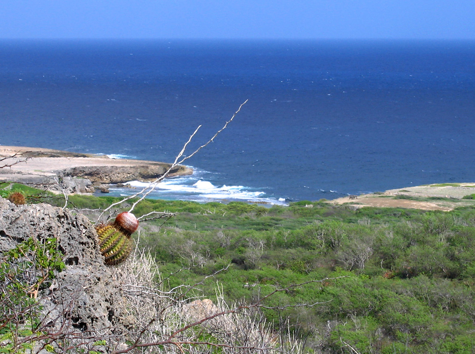 View of the rugged northern coast of the island of Curaçao, at the Christoffel national park, Dutch Caribbean.